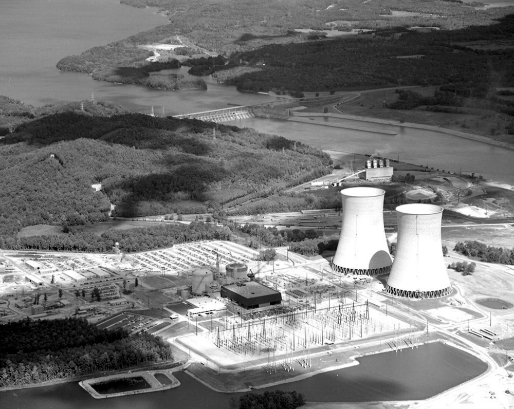 Watts Bar Nuclear Generating Station under construction